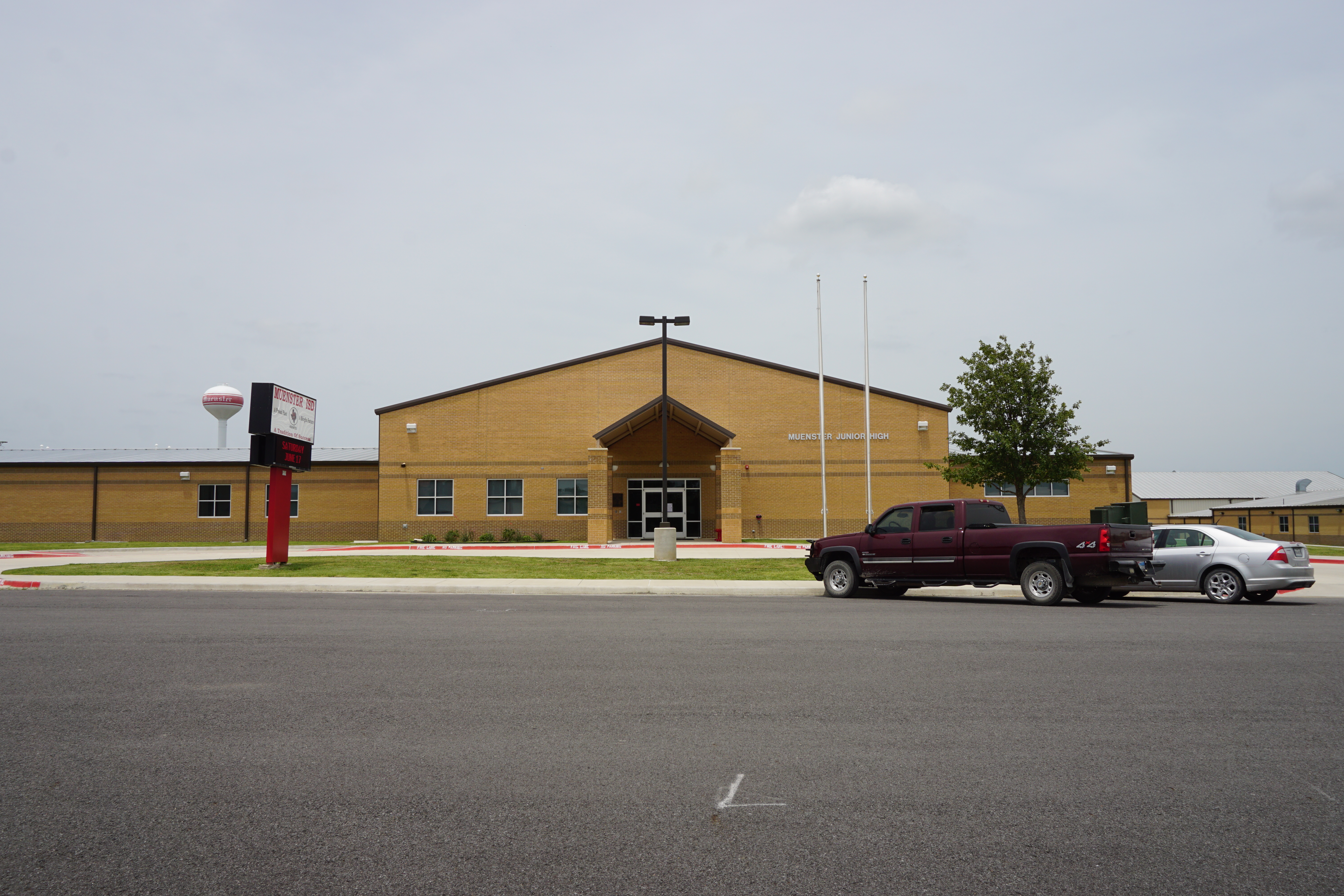 Muenster Junior High School in Muenster, Texas (United States).